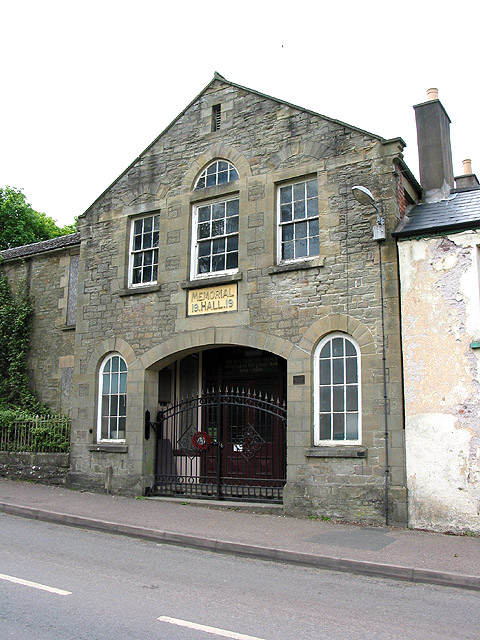 Memorial Hall, Parkend Built in 1919 in Folly Road, in memory of those who died in the First World War.